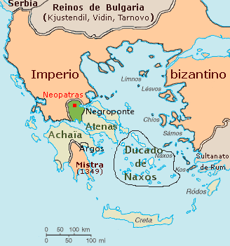 Map of the Duchy of Neopatria